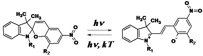 A scheme of a chemical reaction